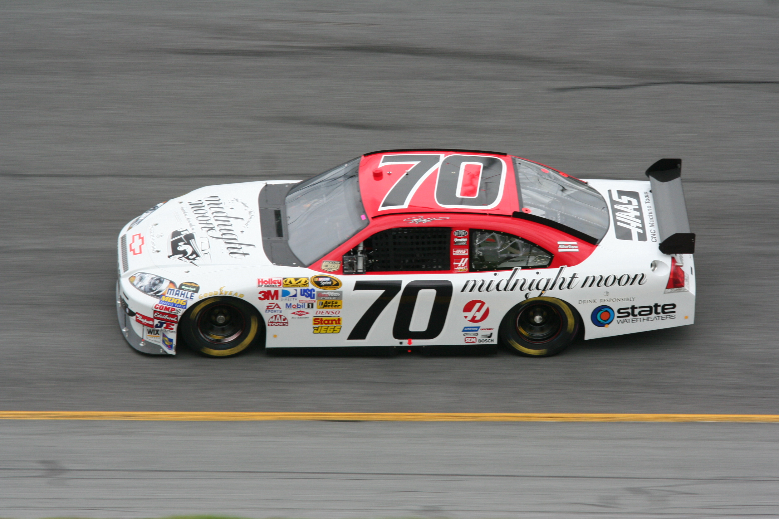 Shot by The Daredevil at Daytona during Speedweeks 2008